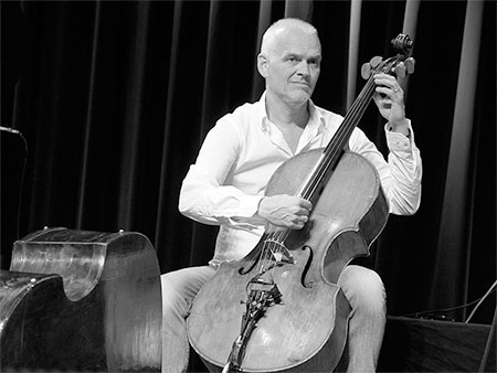 Lars Danielson